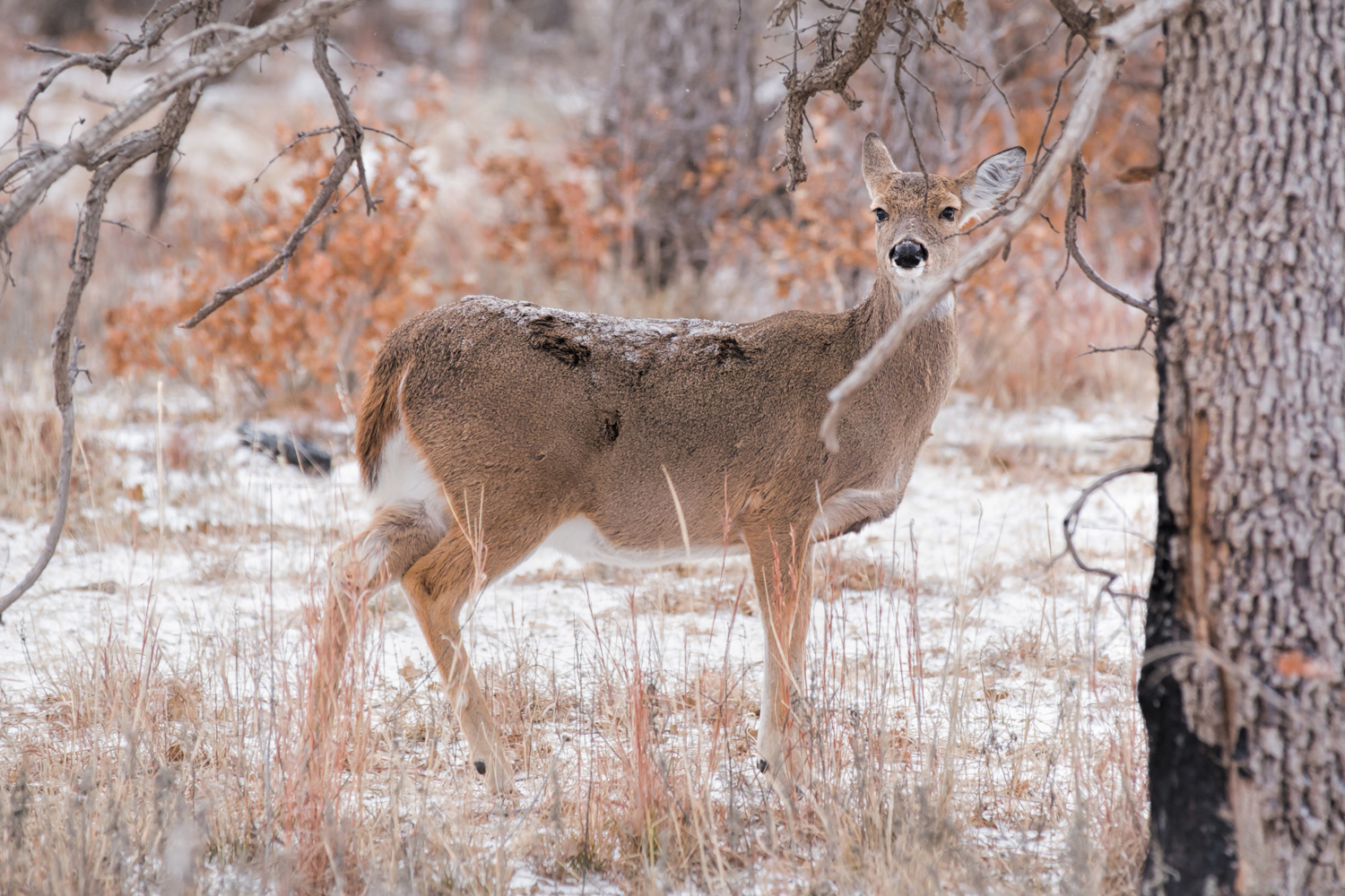 The temperature is 12F with a wind chill around 0. That's a cold morning for this part of the world. Ice on everything, including the white-tailed deer.